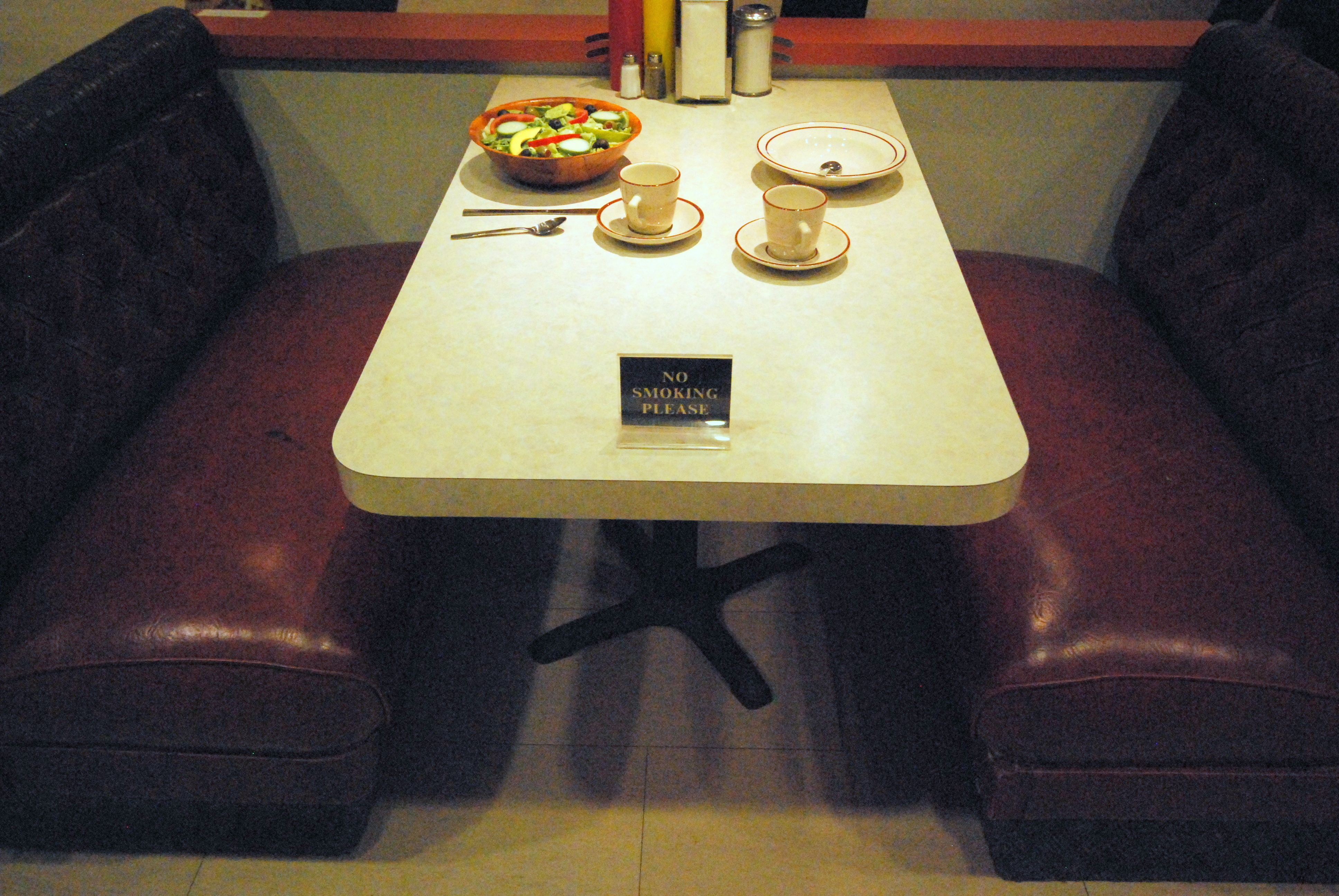 Set from Seinfeld at the Paley Center for Media, 465 N Beverly Drive in Beverly Hills, Los Angeles, CA